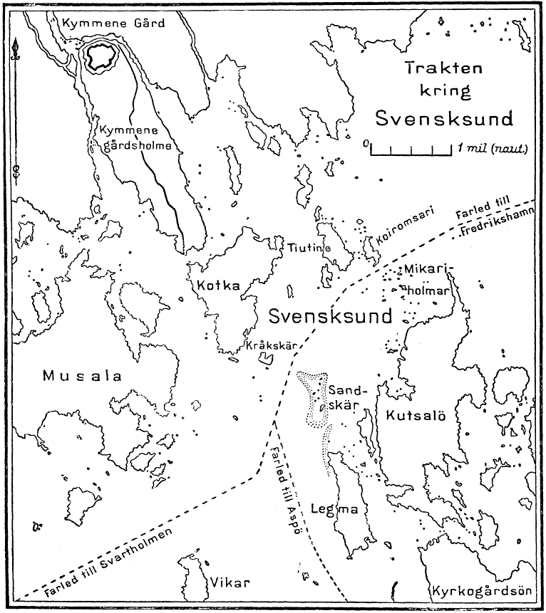 Map of Svensksund outside Category:Kotka in Finland